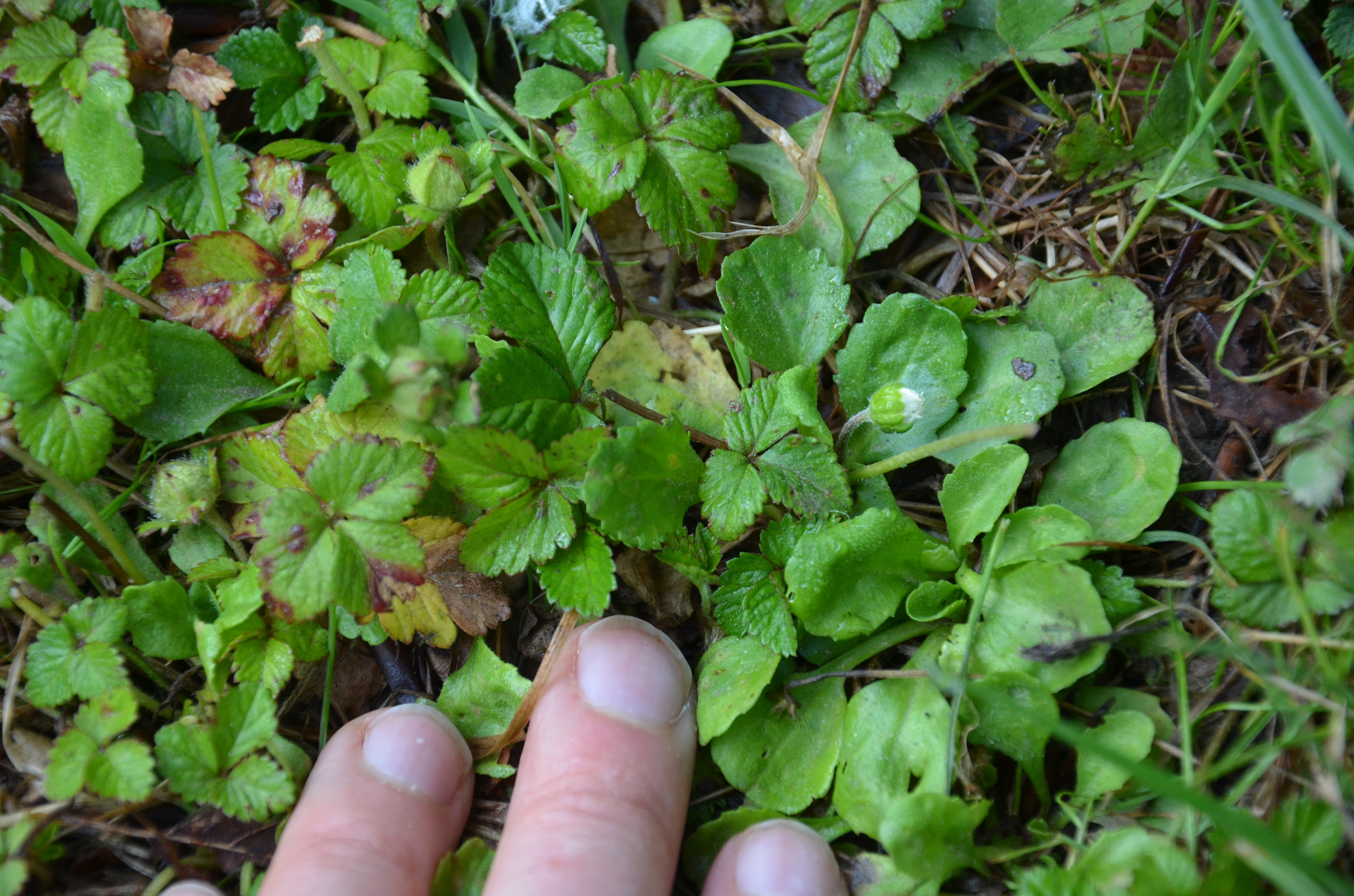 On the edge of a big fishing pond (pond named "Grand Square"), in the wood of the Vauban's Citadel in Lille, on a area moderately trampled by fishermen and walkers, but frequented by ducks, "duchesnaie Indica" has quickly adapted ; with smaller leaves, shorter stolons and daughter plants less spaced, fruit a little smaller. This does not seem to prevent it from multiplying effectively. Unlike what happens in the near woodlands and on roadsides around here the fruits are quickly eaten (by ducks?)